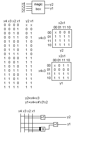 Encoder